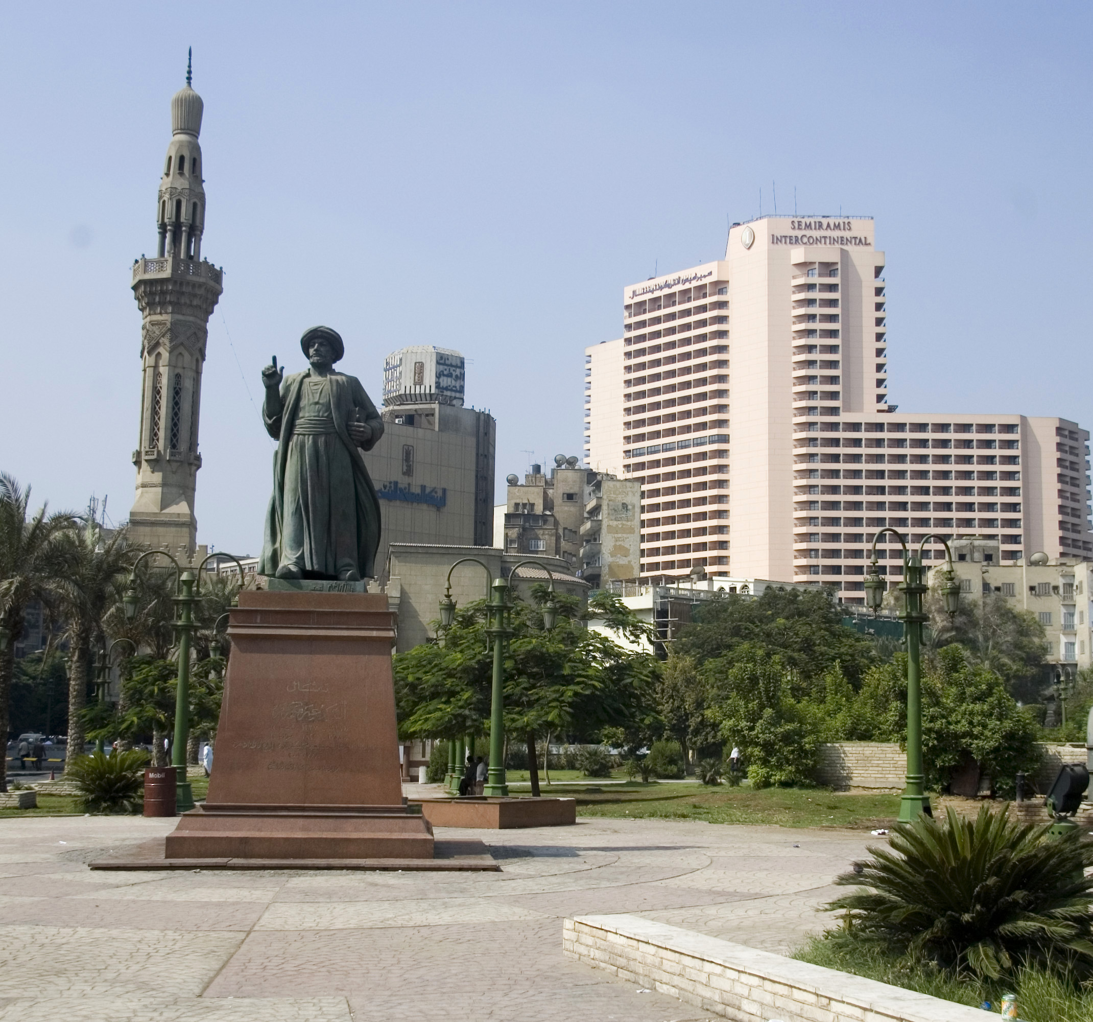 Omar Makram Statue at Midan El Tahrir, behind it the mosque that bears his name.